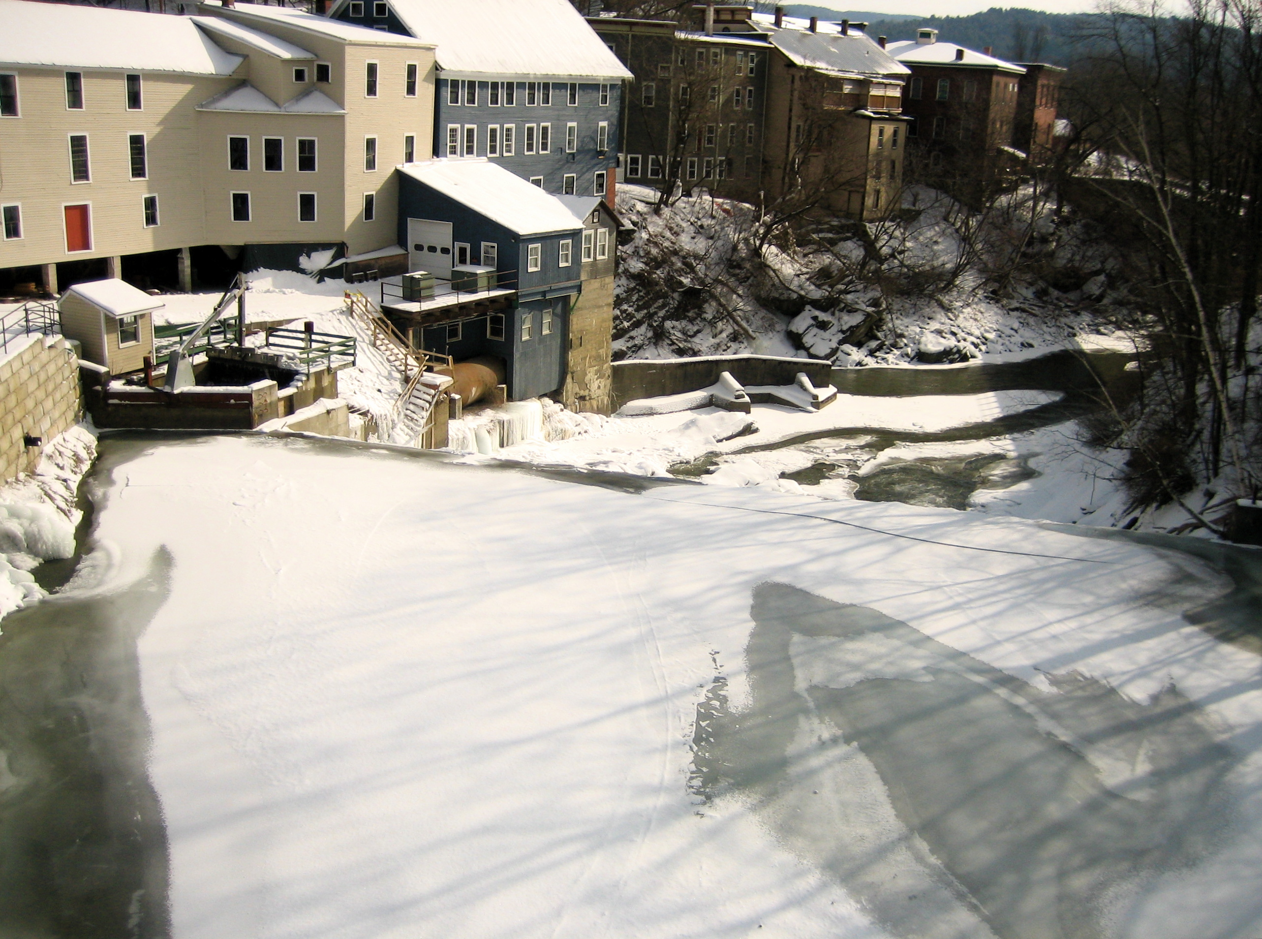 Frozen river in Bethel, Vermont, USA